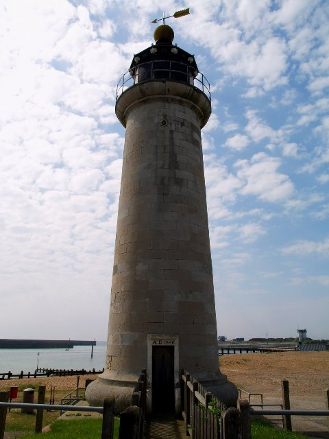 Shoreham Lighthouse, a little architectural gem